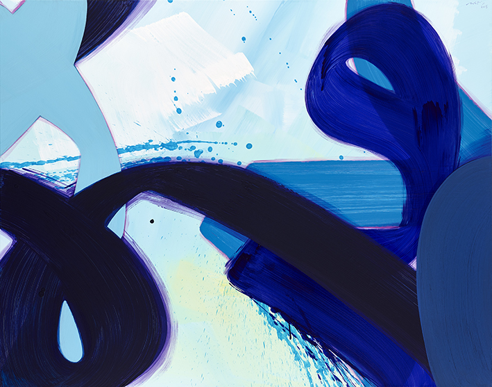 Painting from the Blue Serie: Untitled I, Acrylic on canvas, 150 x 190 cm, Aatifi, 2015 - part of the solo exhibition "Aatifi - News from Afghanistan" in the Pergamon Museum Berlin in 2015.